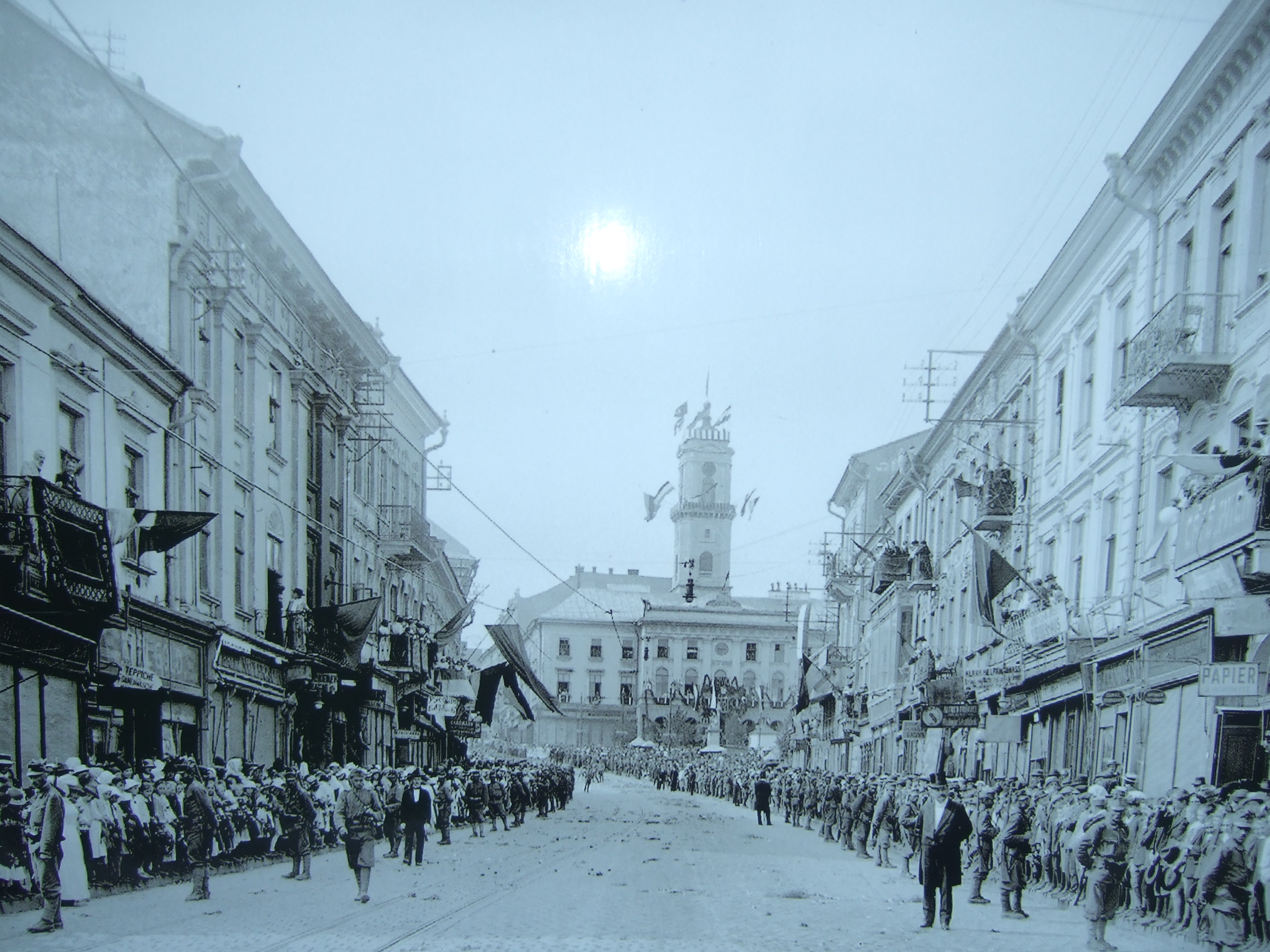 Central square of the city in 1917.